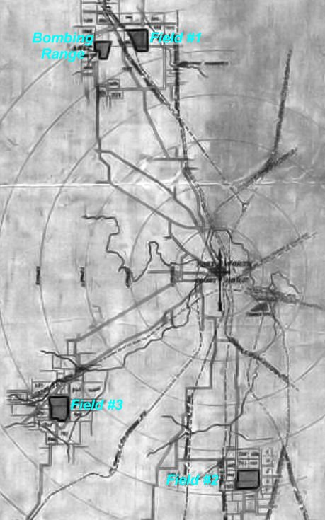 Locations of Hicks Field (#1), Barron Field (#2), and Benbrook Field (#3) as part of Camp Taliaferro training Complex (labeling done by bwmoll3